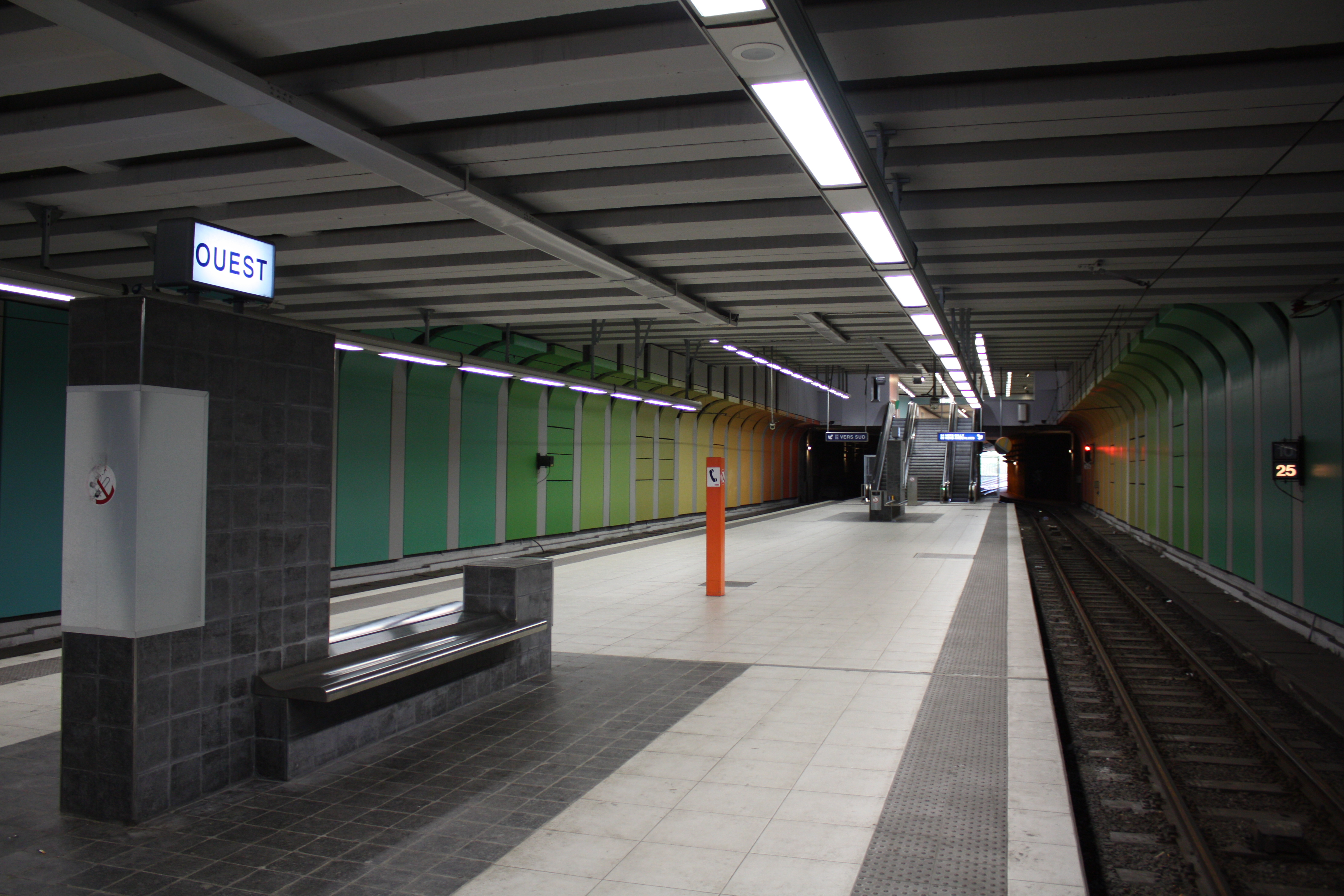 Ouest station Shot on 2009-09-19 on a tour of Charleroi's subway, kindly hosted by TEC-Charleroi. - OpenStreetMap(Info)